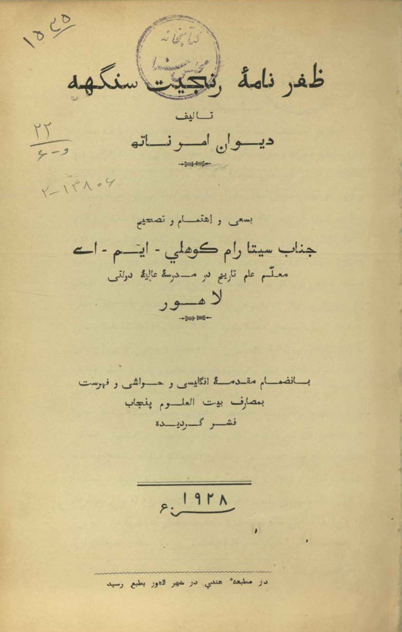 Zafarnamah Ranjit Singh, AUthor Diwan Amar Nath (1822-1867), Lahore